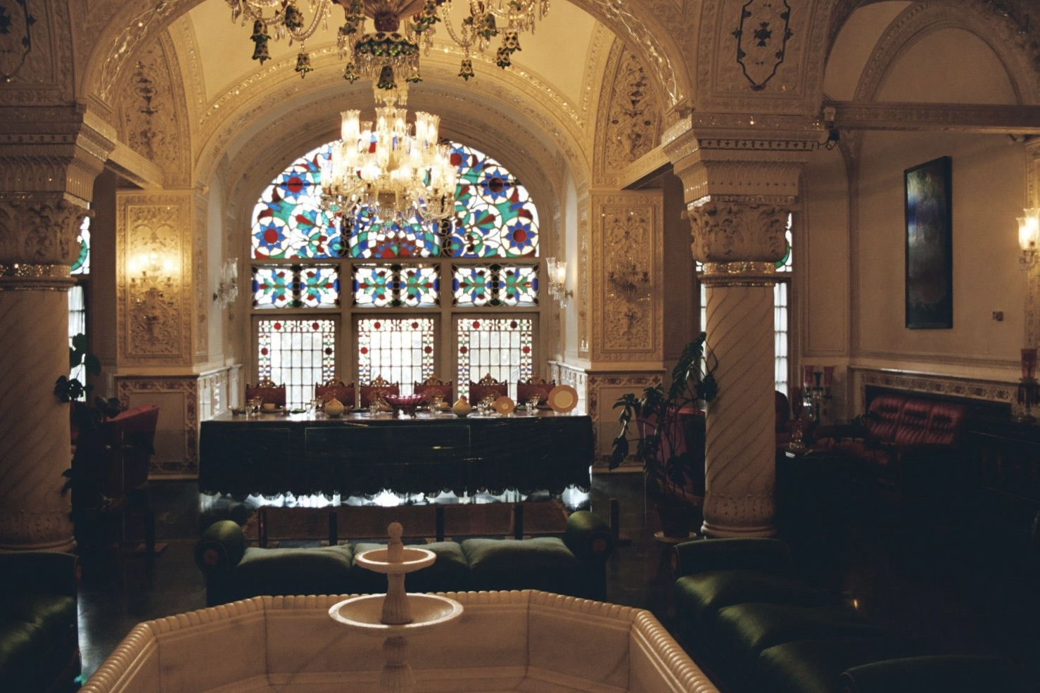 Sahebqraniyeh Palace interior with fountain — at the royal Niavaran Palace complex, Tehran. Example of Qajar dynasty architecture.